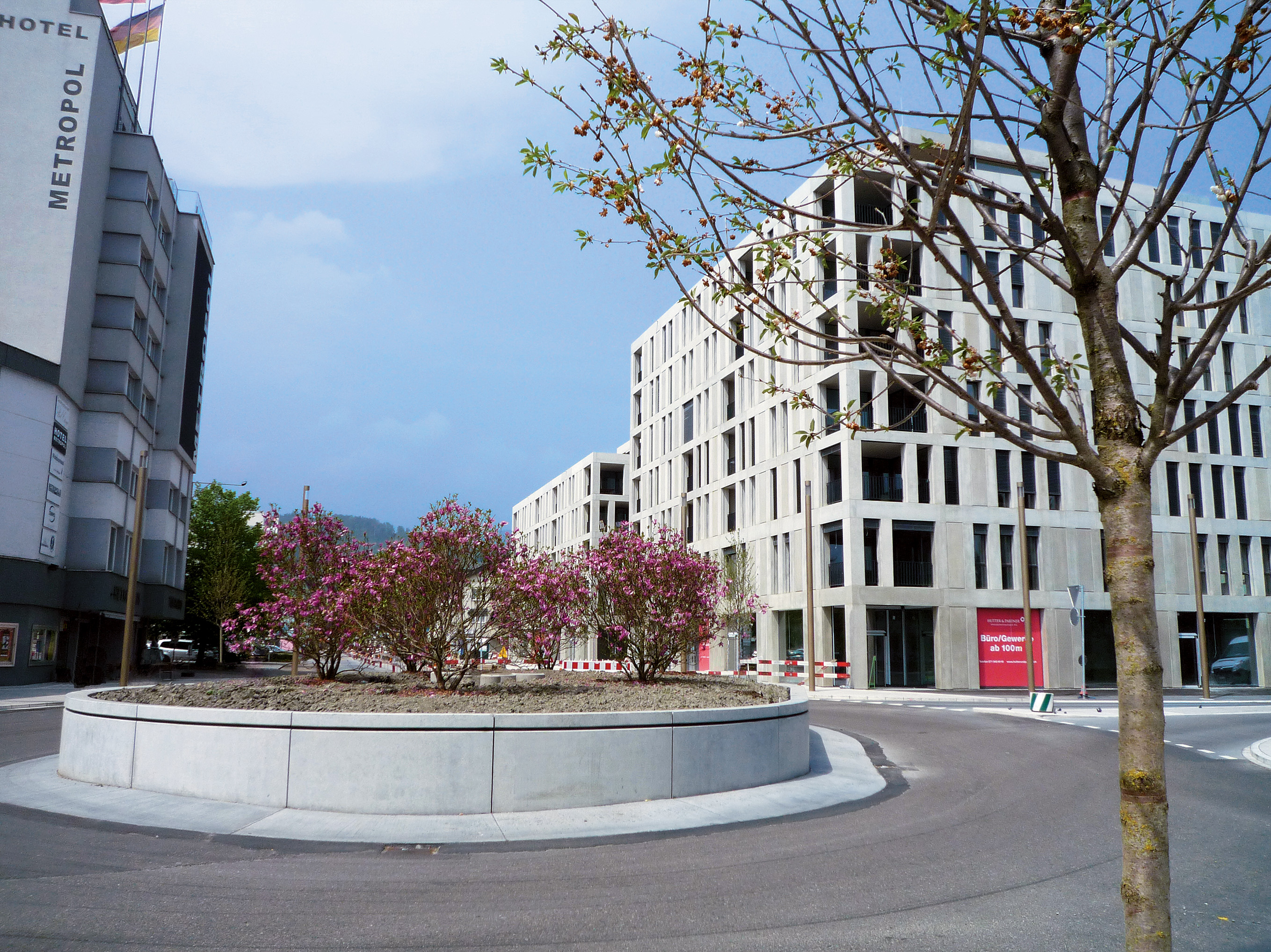 main street of Widnau